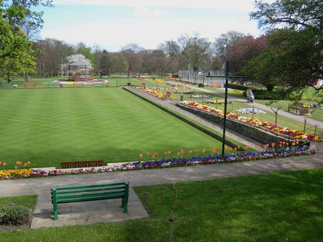 Jubilee Gardens, Spennymoor A very attractive park, opened to commemorate Queen Victoria's Golden Jubilee.